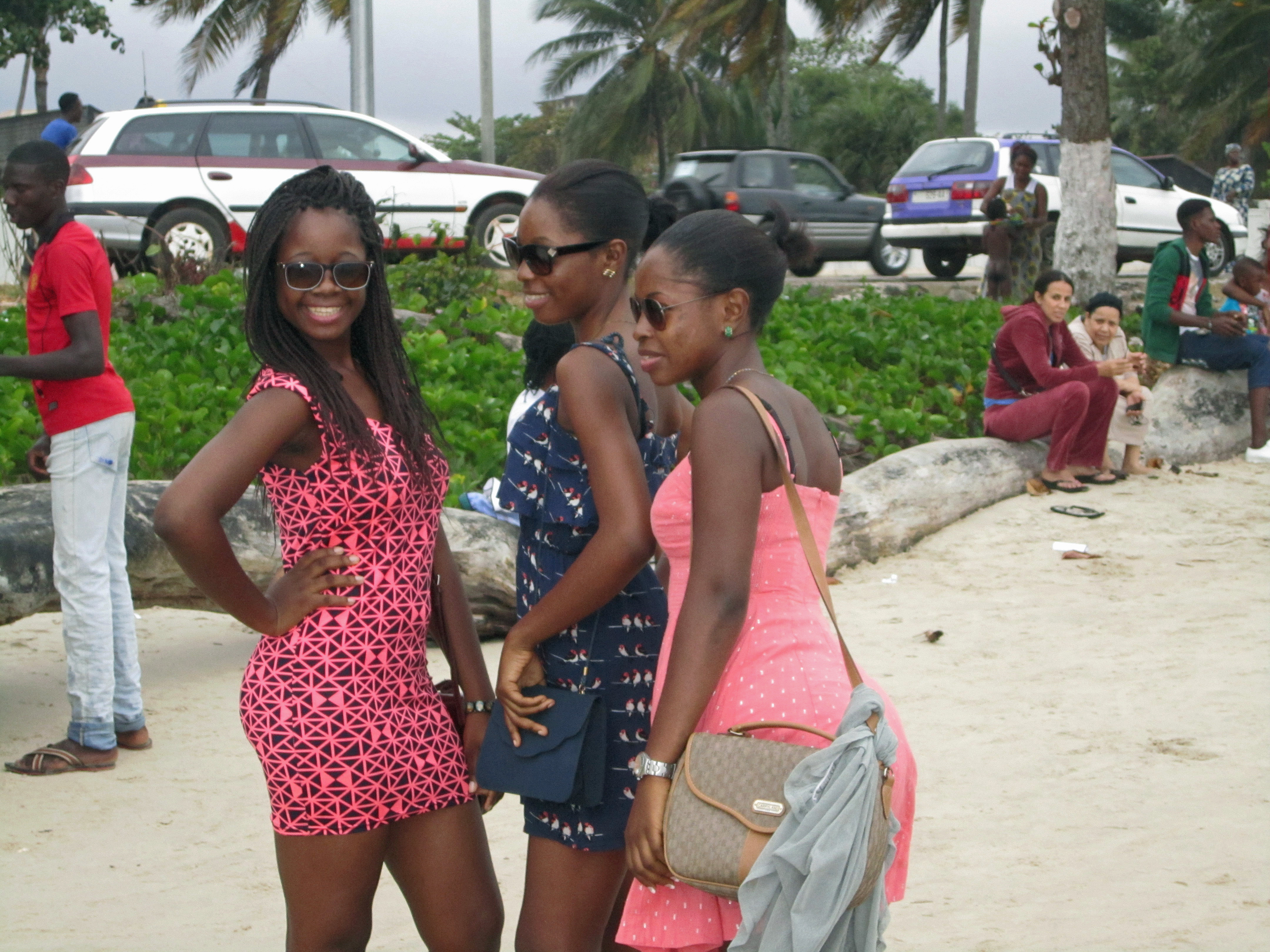 This is an image of Cultural Fashion or Adornment from Gabon